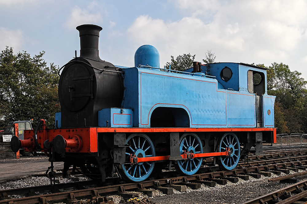 Built 1939 - Buckinghamshire Railway Centre, Quainton, 04/10/2015